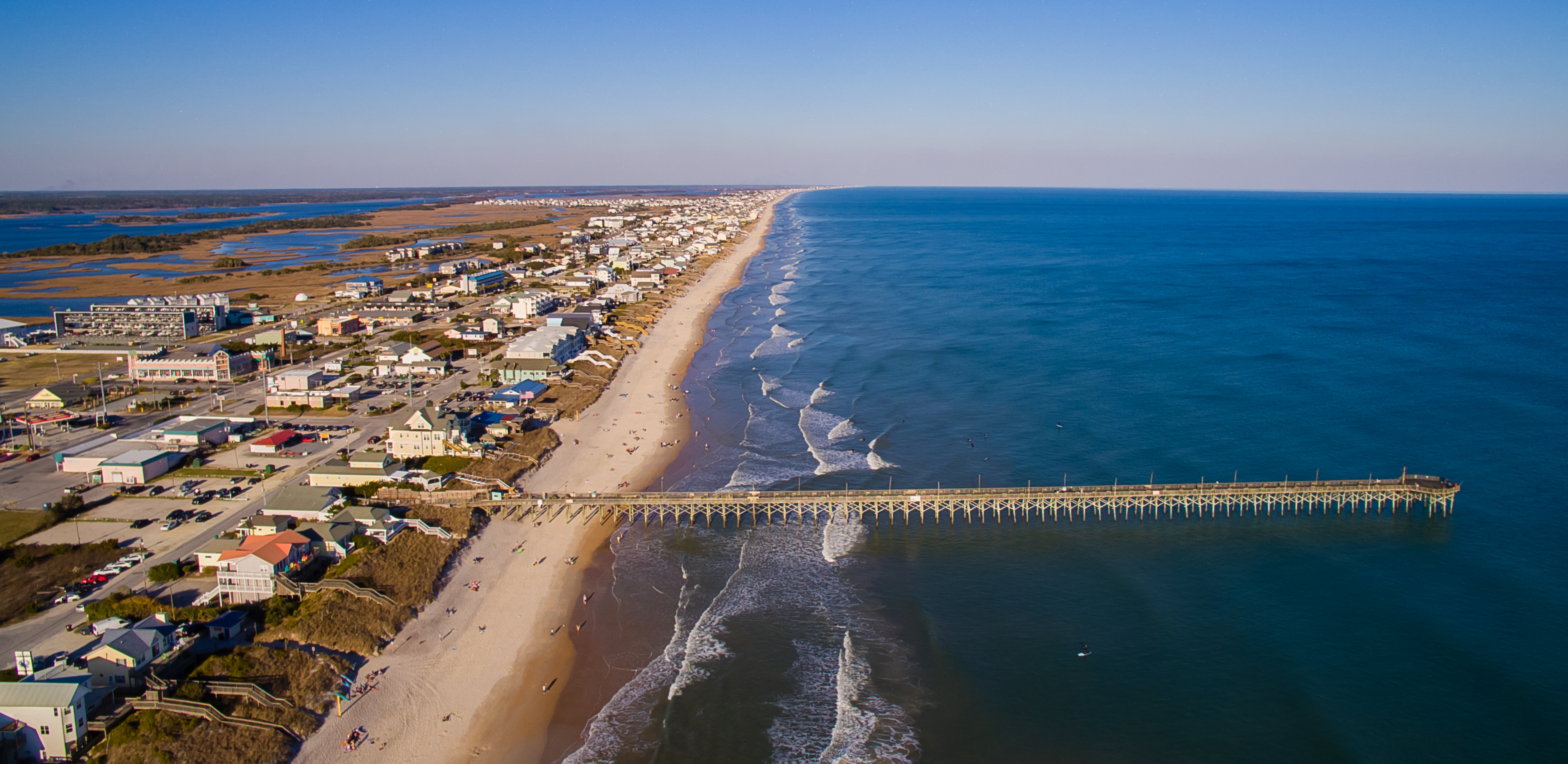 Overhead view of the Surf City, NC Pier